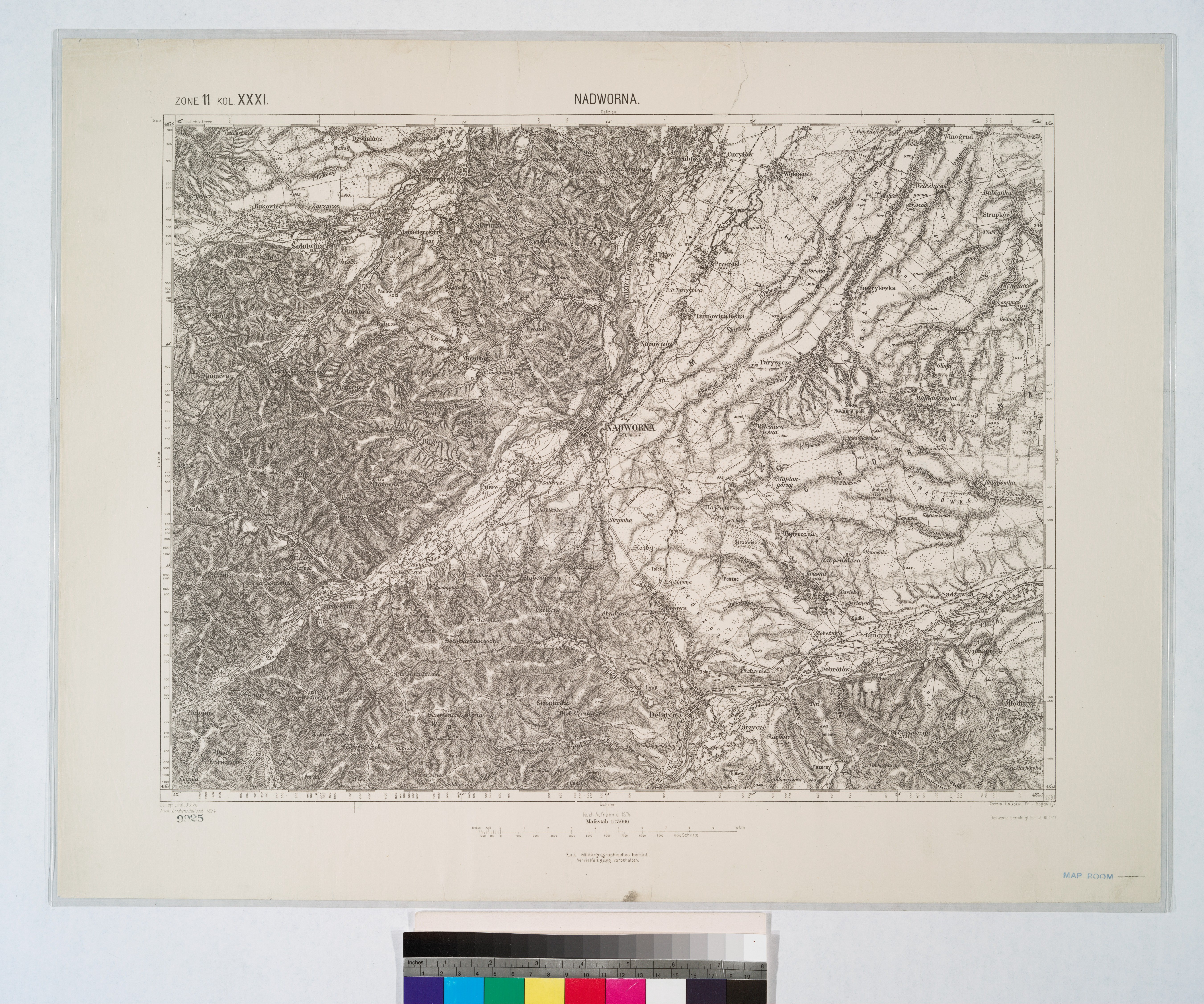 Nadworna Austro-Hungarian Monarchy. Militärgeographisches Institut (Cartographer) 1911: Issued 2013: Digitized